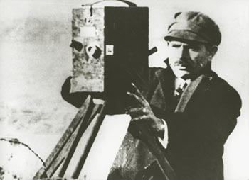 Picture of Yanaki Manaki with a Bioscope 300 film camera.